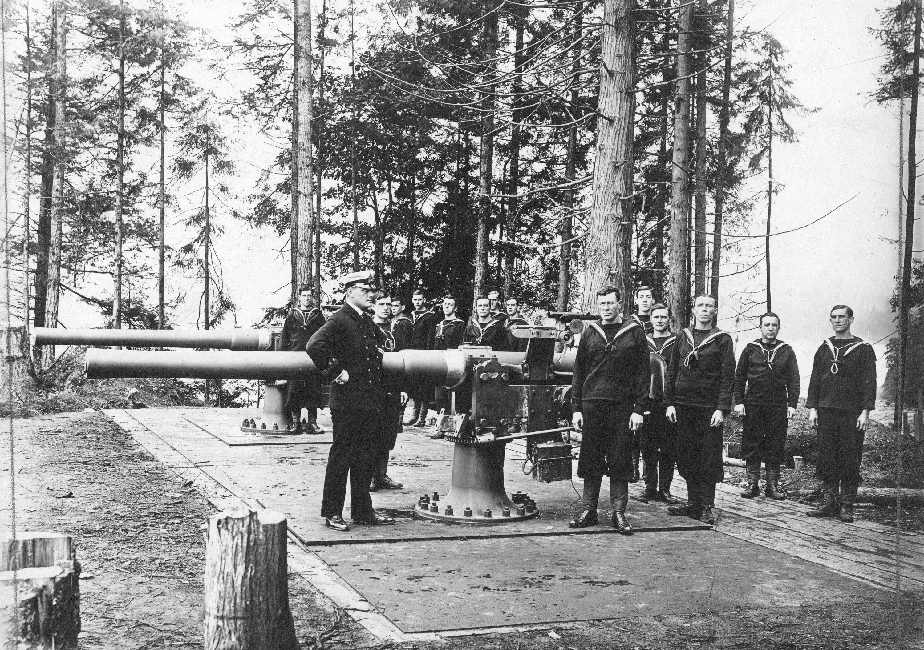 The Royal Canadian Naval Volunteer Reserve at the QF 4-inch gun emplacement near Ferguson Point, Stanley Park, Vancouver. Comment : These guns were possibly dismounted from HMS Shearwater. See also : File:QF 4-inch guns and crew in Stanley Park WWI.jpg File:QF 4-inch guns in Stanley Park Aug 1914.jpg